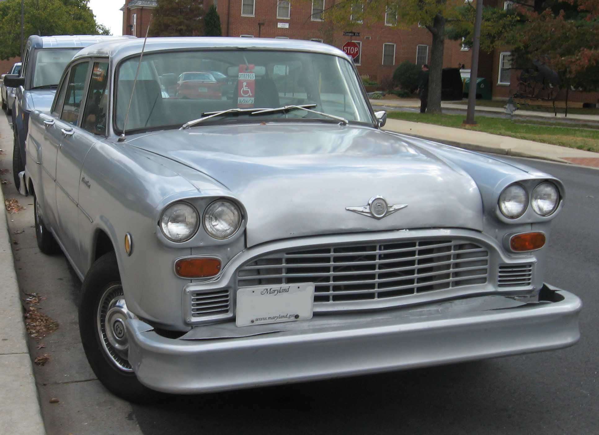 Checker Marathon photographed in College Park, Maryland, USA.